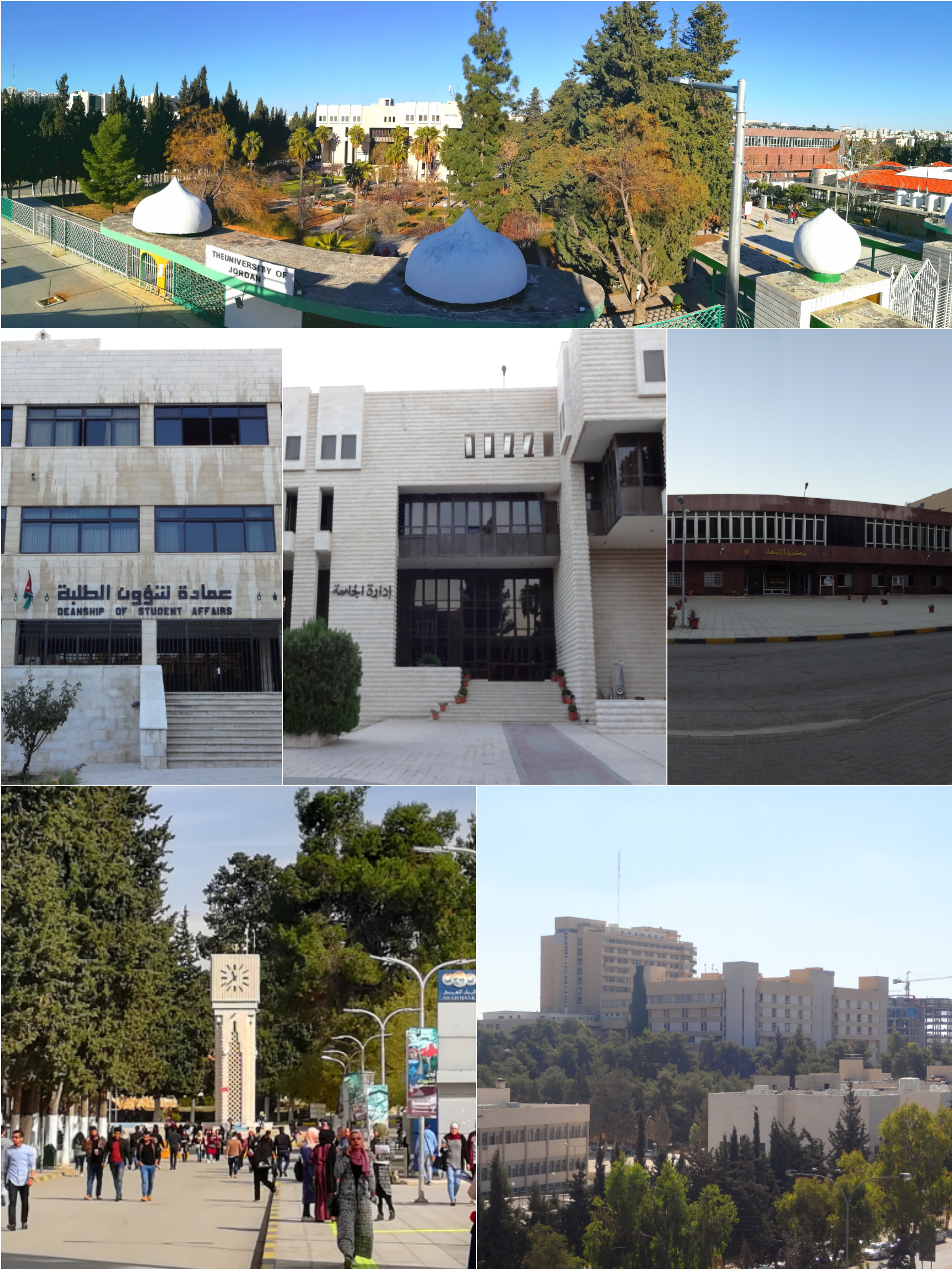 University of Jordan collage.